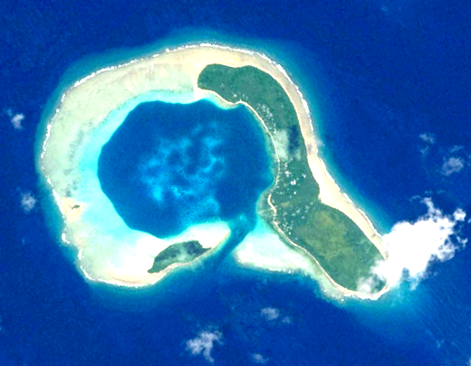 NASA astronaut image of Ifalik Atoll, Yap State, Federated States of Micronesia